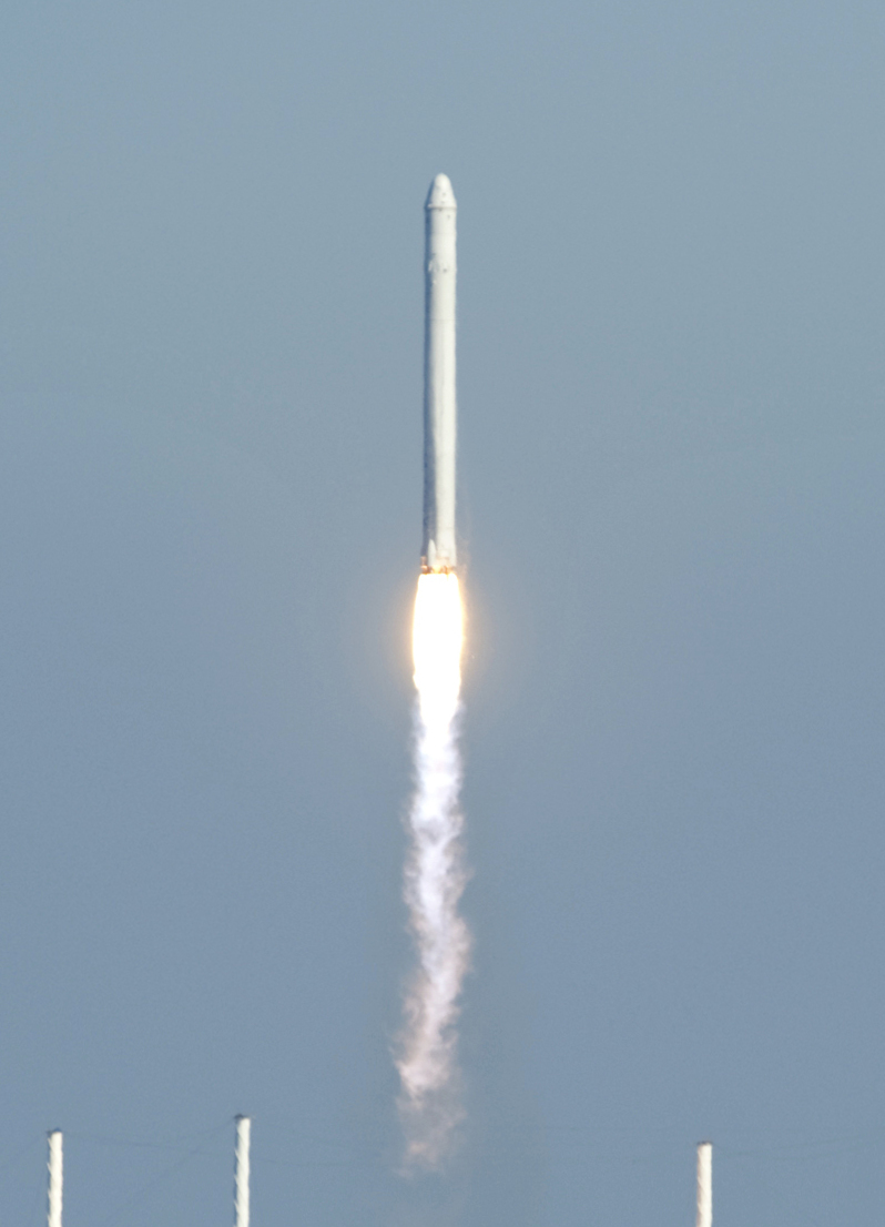 CAPE CANAVERAL, Fla. -- SpaceX’s Falcon 9 rocket and Dragon spacecraft lift off from Launch Complex-40 at Cape Canaveral Air Force Station, Fla., at 10:43 a.m. EST. In orbit, the Dragon capsule will go through several maneuvers before it re-enters the atmosphere and splashes down in the Pacific Ocean about 500 miles west of the coast of Mexico. This is first demonstration flight for NASA's Commercial Orbital Transportation Services (COTS) program, which will provide cargo flights to the International Space Station in the future. PHOTO NO: KSC-2010-5799